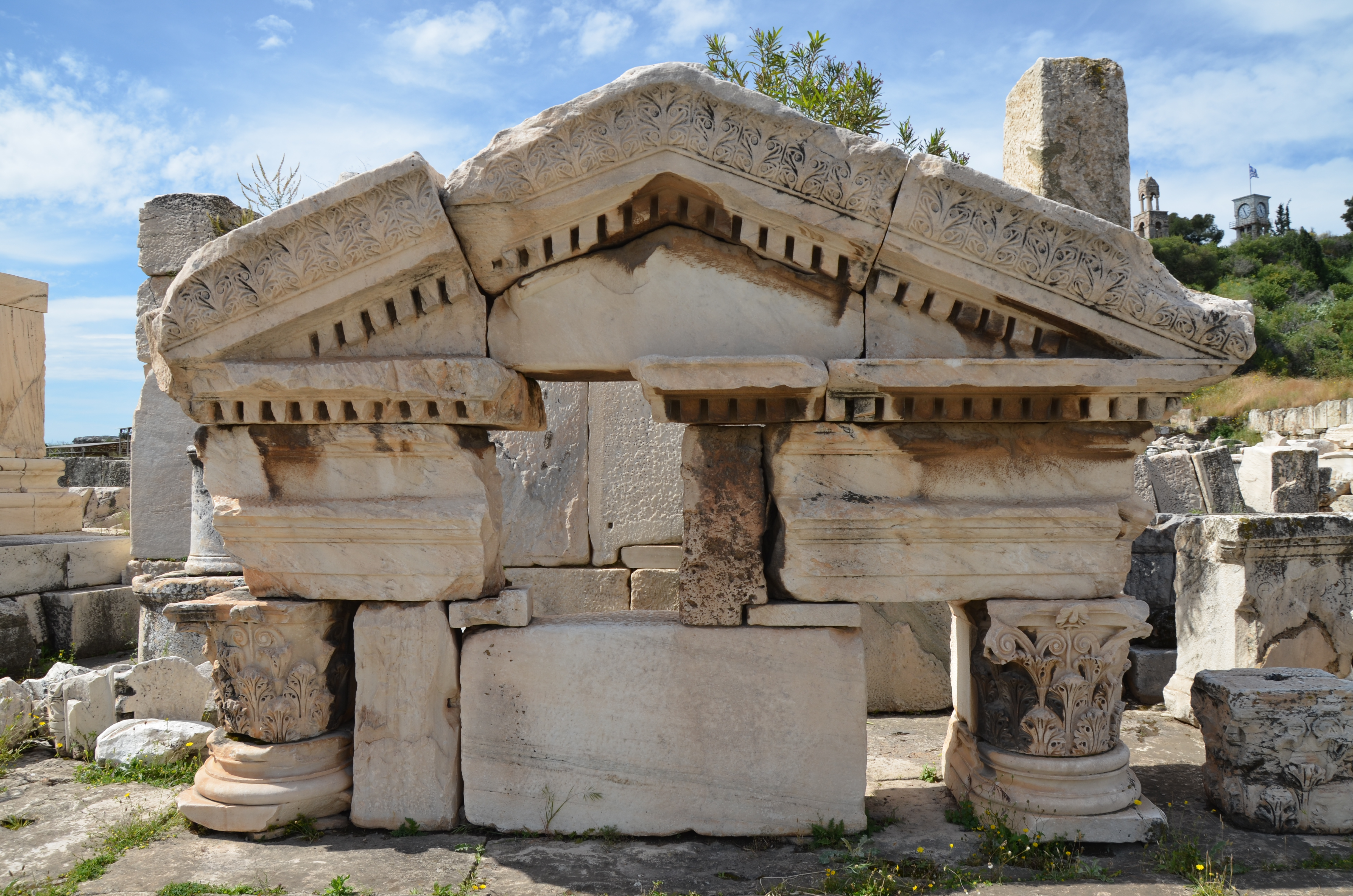 Copy of Hadrian's Arch in Athens. Single wide arch with 2nd story of columns and entablature above. Corinthian columns on piers to either side of the arch opening (front and rear).